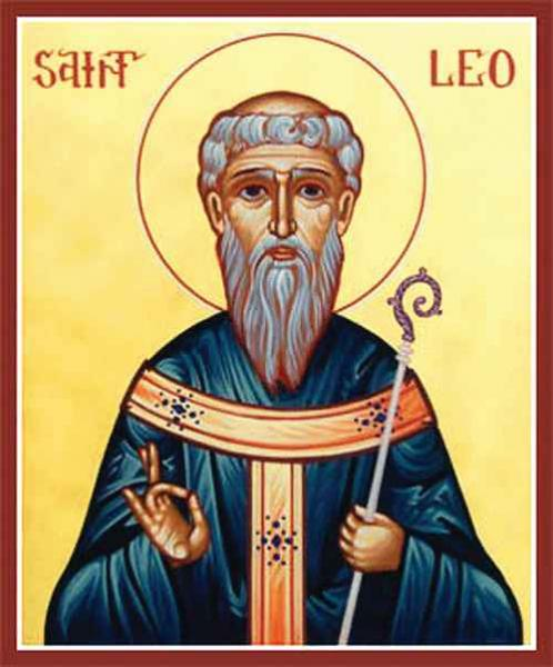 St. Leo of Catania (ortodox icon)